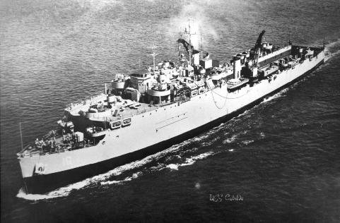 Cabildo (LSD-16) underway, mid-1950s, place unknown.